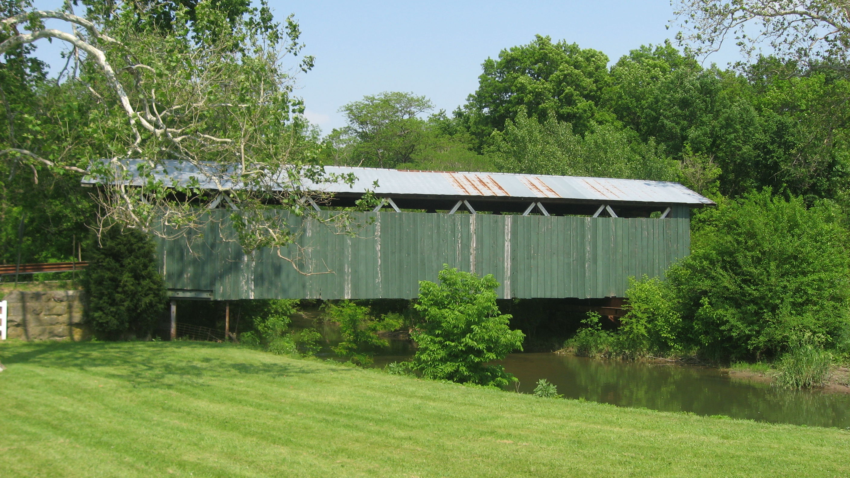 Western side of the Ballard Road Covered Bridge, which formerly carried Ballard Road over Caesars Creek northwest of Jamestown in New Jasper Township, Greene County, Ohio, United States. Built in 1883, the bridge is listed on the National Register of Historic Places.